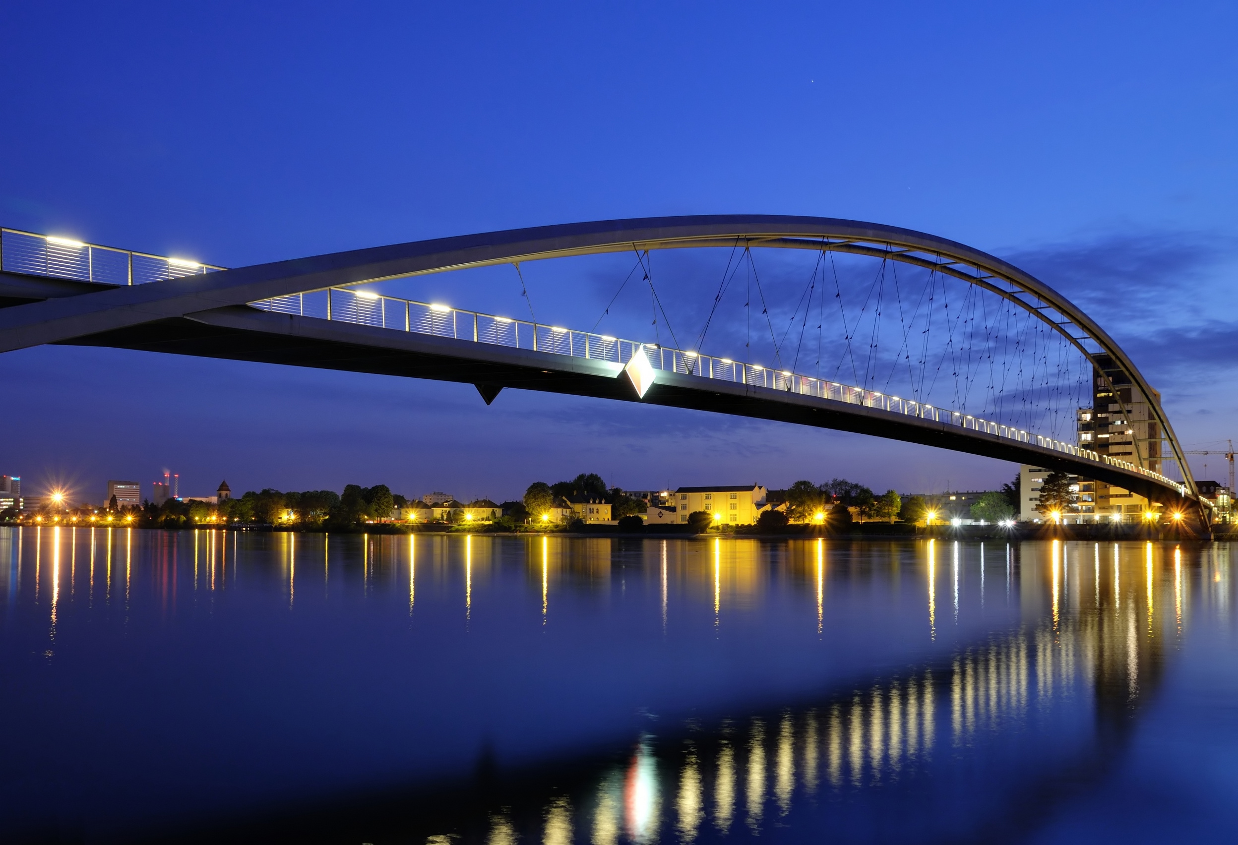 The Three Country Bridge at night in Huningue (France) and Weil am Rhein (Germany) next to the Tripoint near Basel (Switzerland).